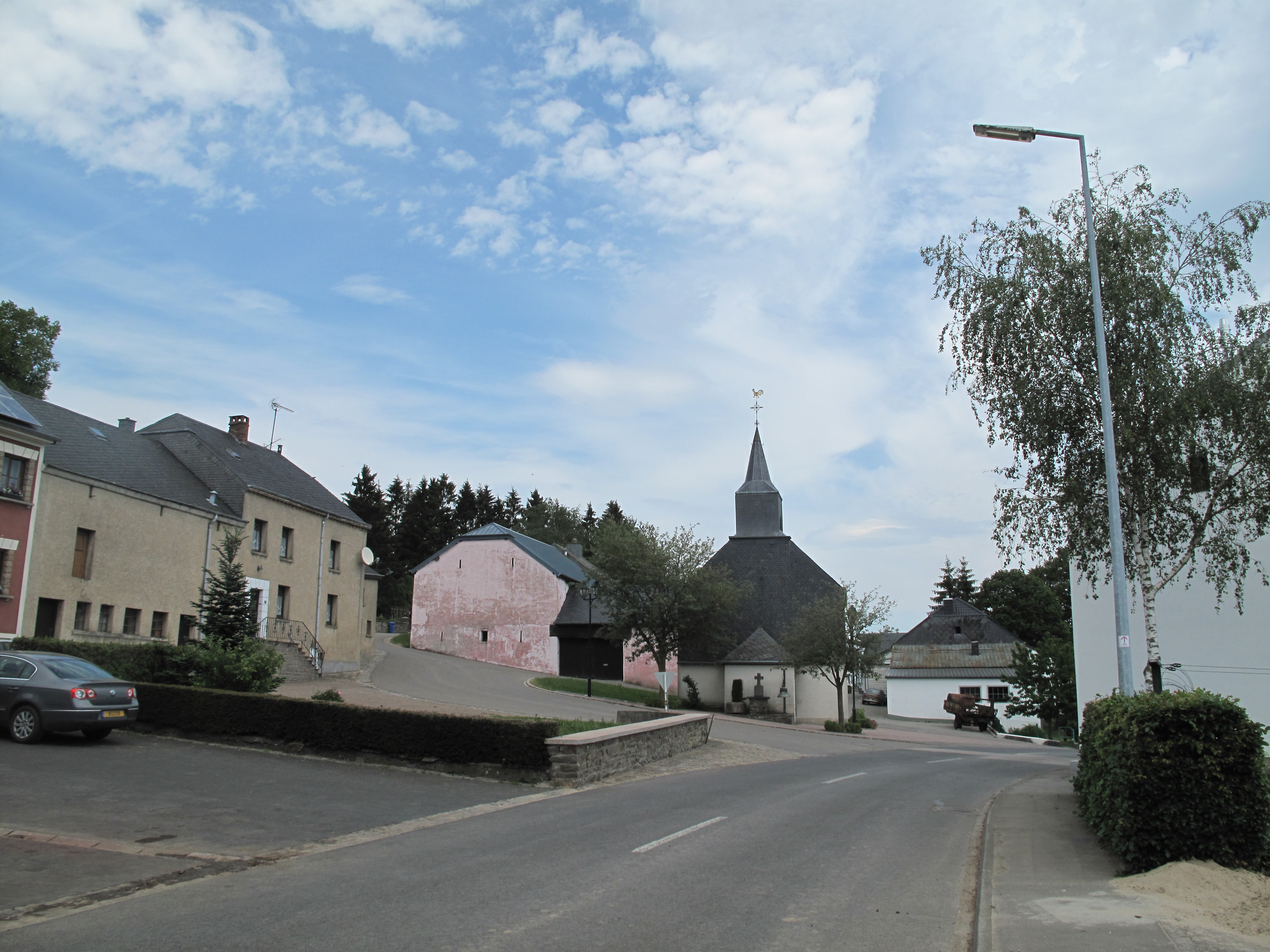 Breidfeld, church in the street